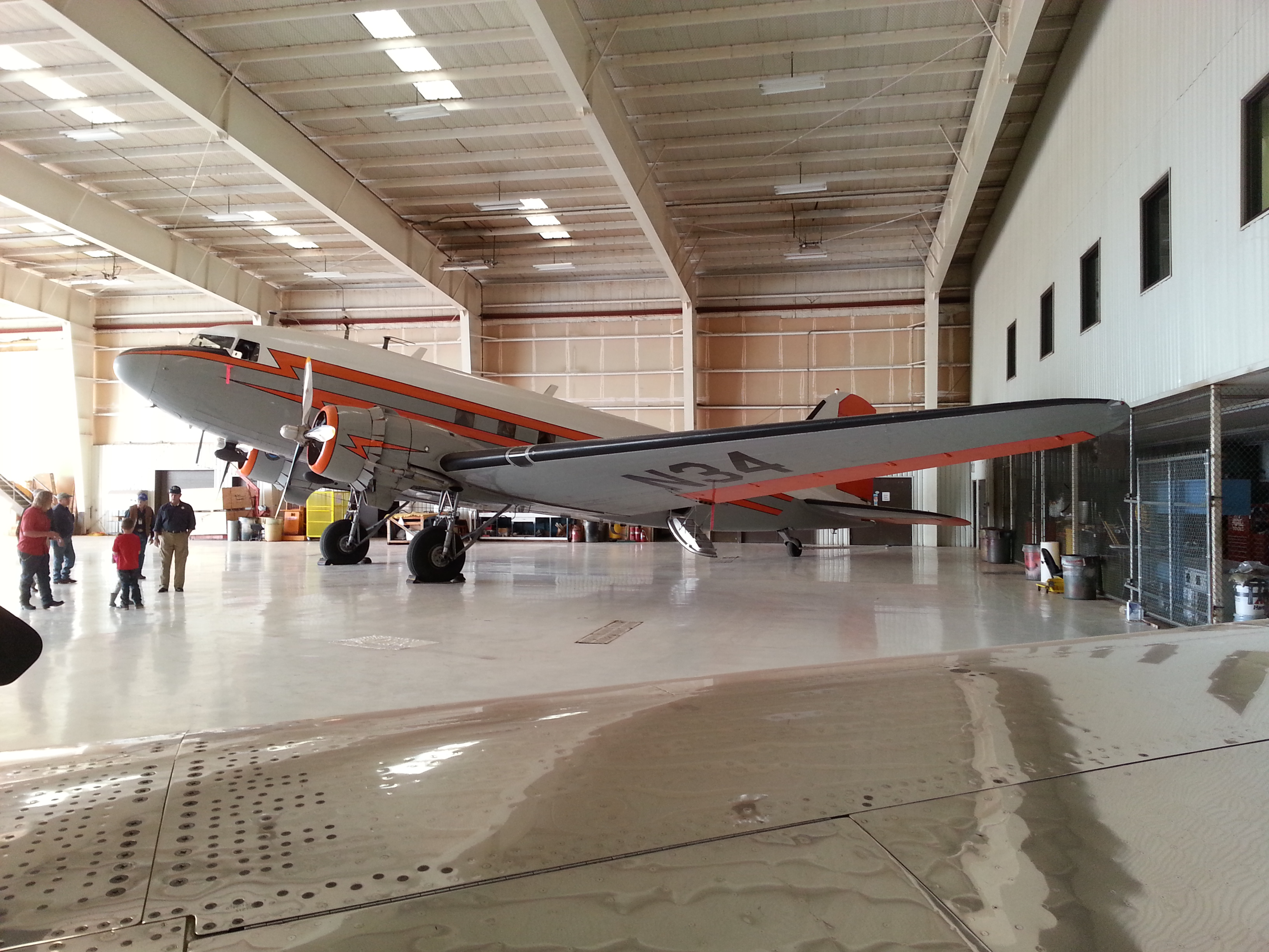 Douglas DC-3 located at Texas Air & Space Museum in Amarillo, Texas.